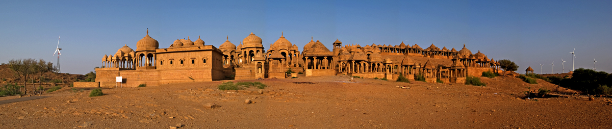 Bada Bagh Panorama, cenotaphs near Jaisalmer/Rajasthan/India own photo, may 18, 2005 photo: nomo/michael hoefner